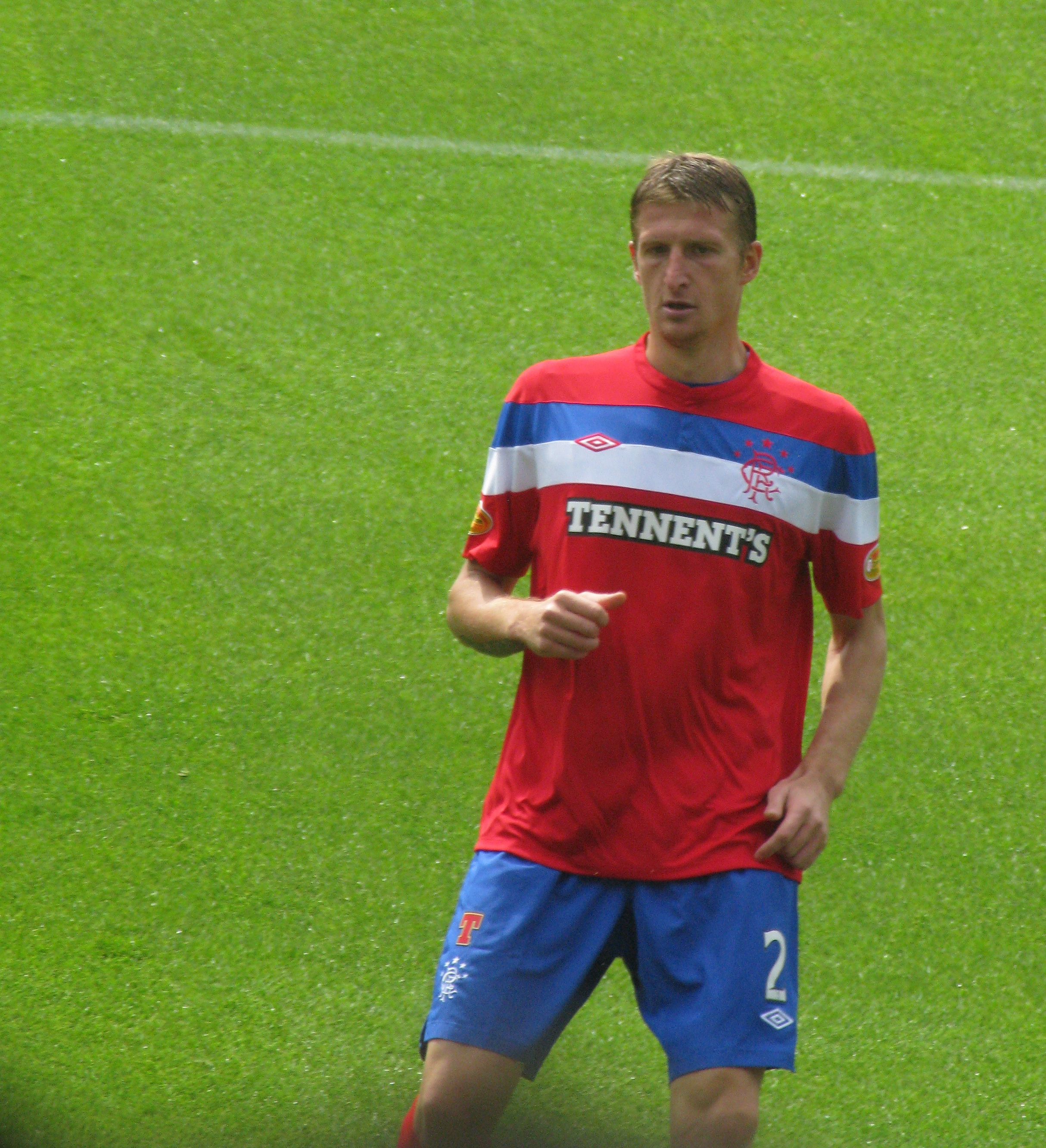 Dorin Goian.